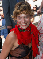 Milla Jovovich at Cannes.